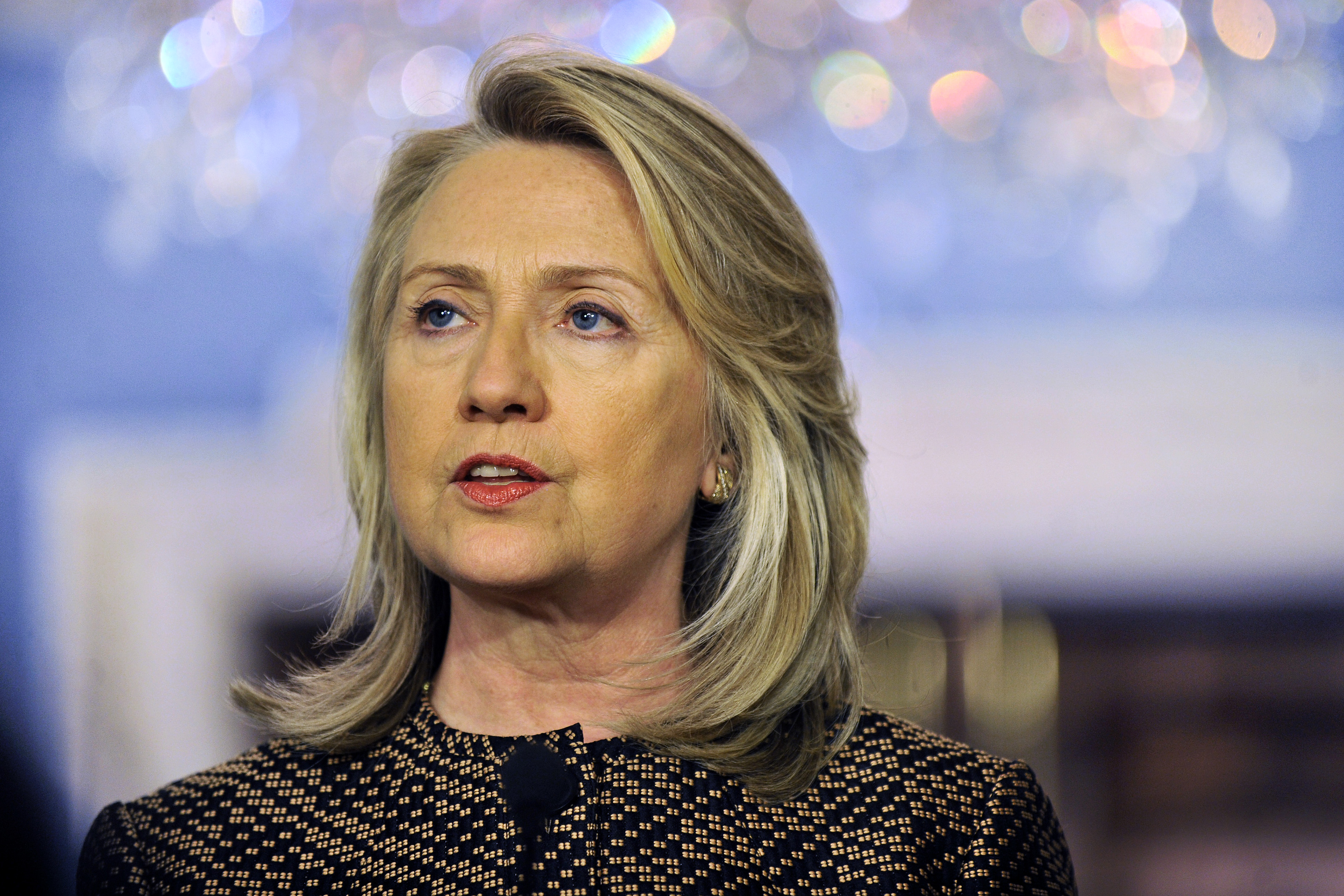 U.S. Secretary of State Hillary Rodham Clinton addresses the media after presiding over a meeting with U.S. Defense Secretary Leon E. Panetta, Filipino Foreign Affairs Secretary Albert del Rosario, and Filipino Defense Secretary Voltaire Gazmin at the State Department in Washington, D.C., April 30, 2012.